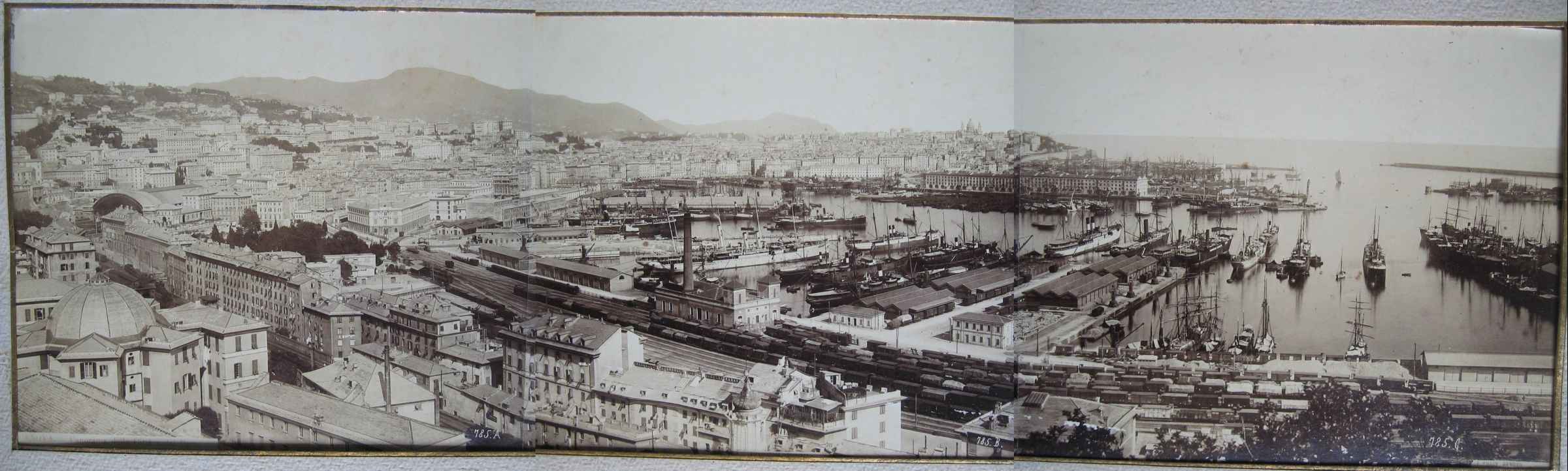 Alfred Noack (1833-1895) - Genoa, Panorama of the City and the harbour. Catalogue # 785.ABC.